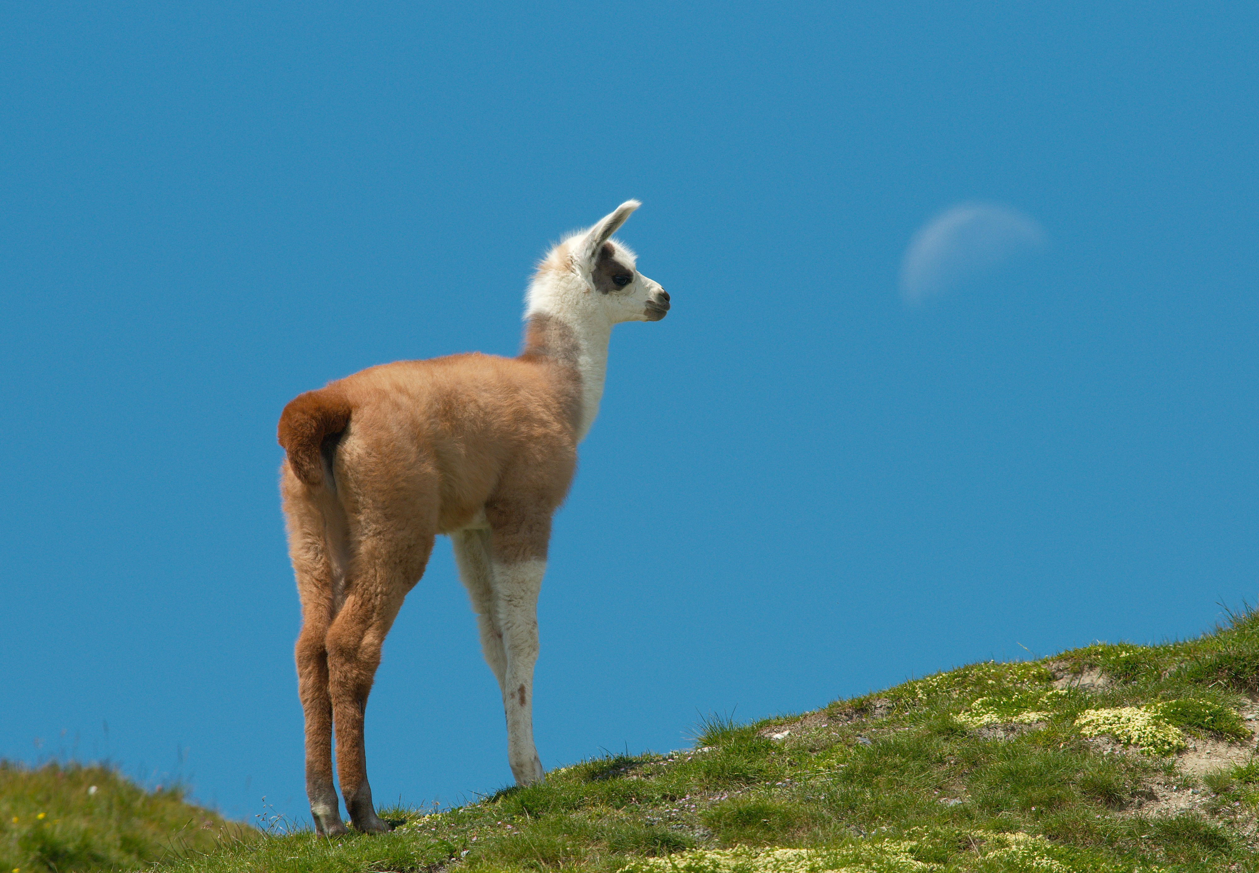 young Lama Pyrénés (France)